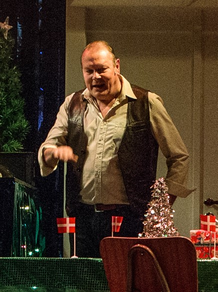 Hans Henrik Clemensen in the Copenhagen theater Folketeatret's production of the play "Varmestuen" by Anna Bro.